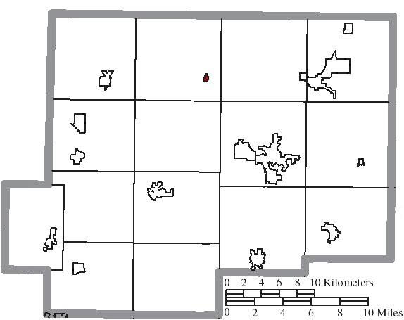 Map of the municipal and township boundaries of Putnam County, Ohio, United States, as of the 2000 census, with the location of the village of Miller City highlighted. Township borders are shown only in unincorporated areas in order to differentiate incorporated and unincorporated areas more clearly.